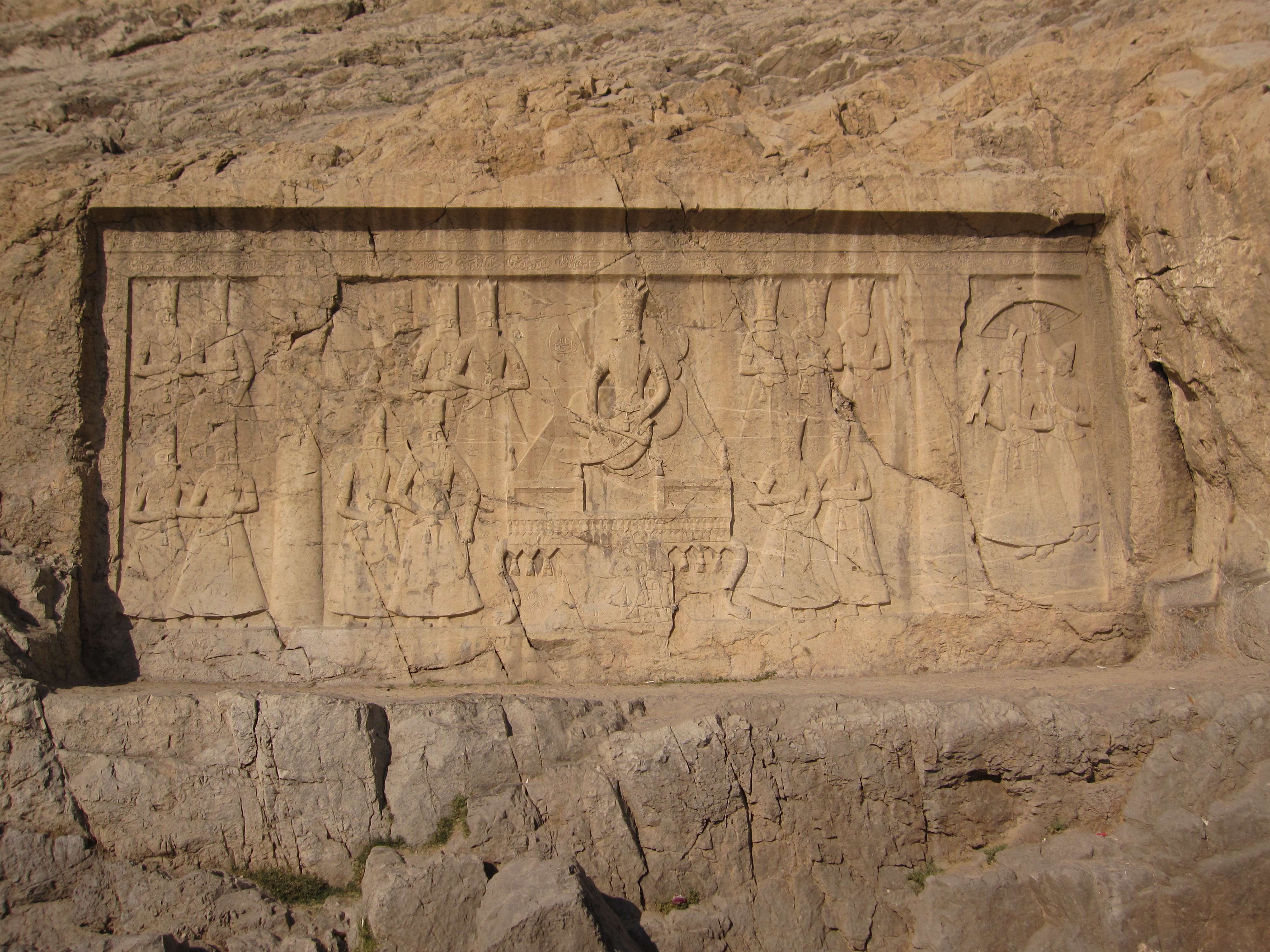 Tehran: Old stone inscription in Cheshme Ali in the city of Rey.